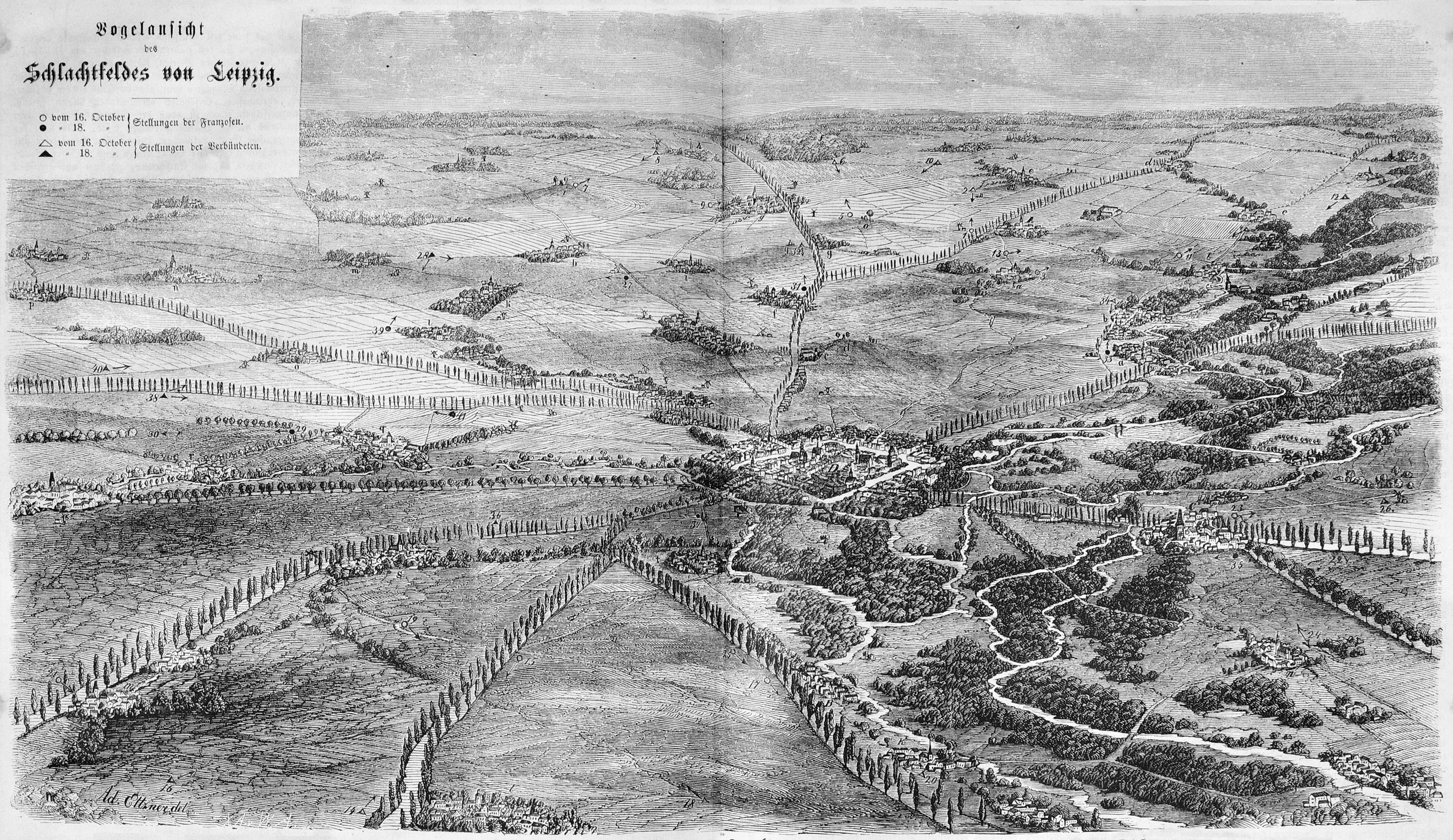 no caption